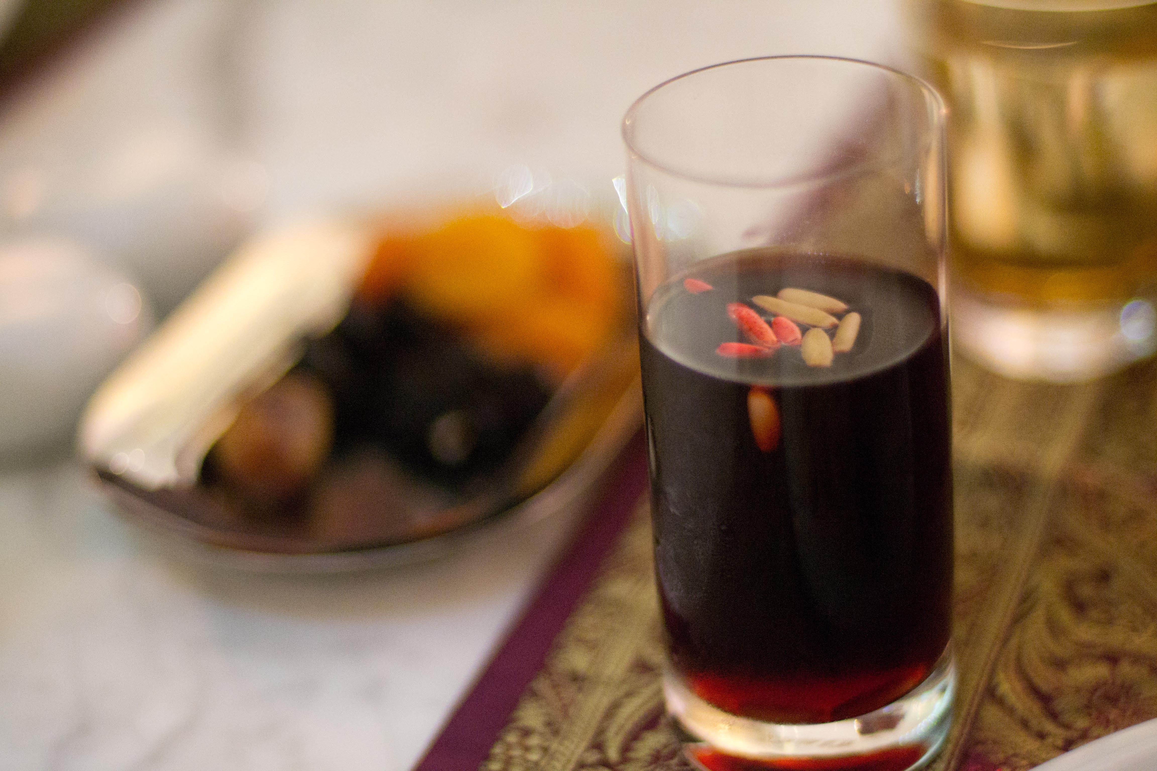 Jallab (Arabic, جلاب ) is a type of syrup made from carob, dates, grape molasses and rose water, used to make jallab tea, as pictured.